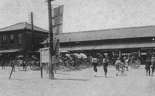 Onomichi Station in Meiji and Taisho eras